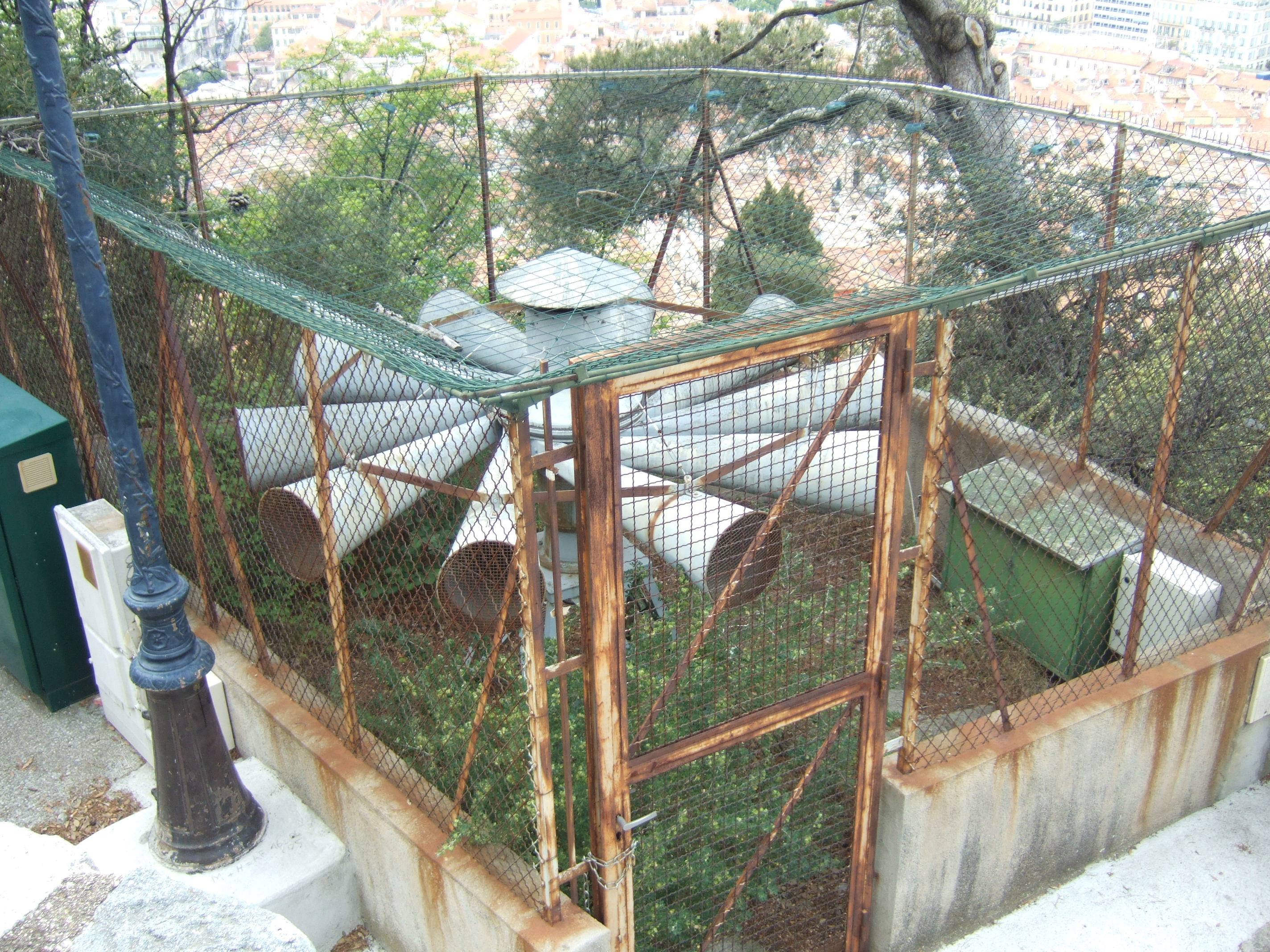 An old air-raid siren found on top of the Parc du Château in Nice. See [1] Taken by me.